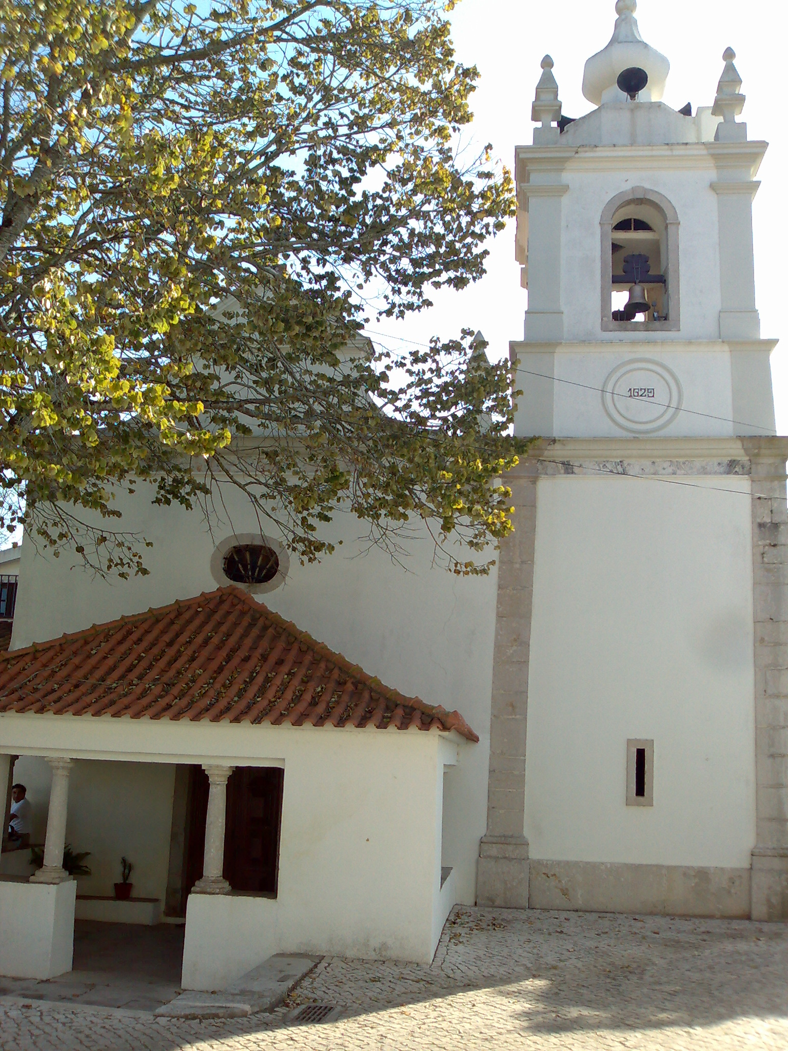 Church in Moledo, Lourinhã, Portugal